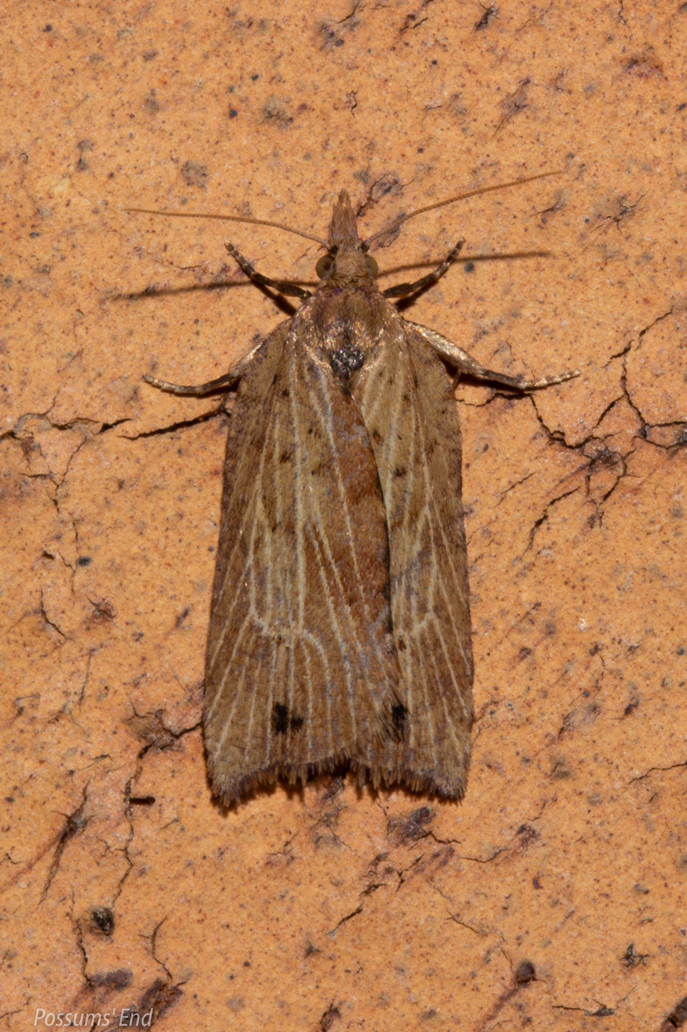 Planotortrix notophaea (Q14113463) by Possums' End via iNaturalist